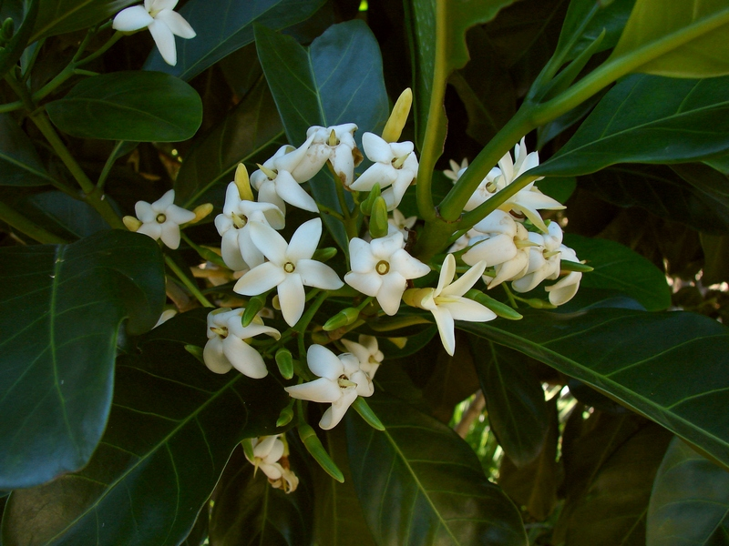 Australian native Atractocarpus fitzalanii Family: Rubiaceae Common names: Yellow Mangosteen, Brown Gardenia, Orange Randia, Native Gardenia, Native Guava. Small tree Location: planted in 17-Mile Rocks Park, Brisbane